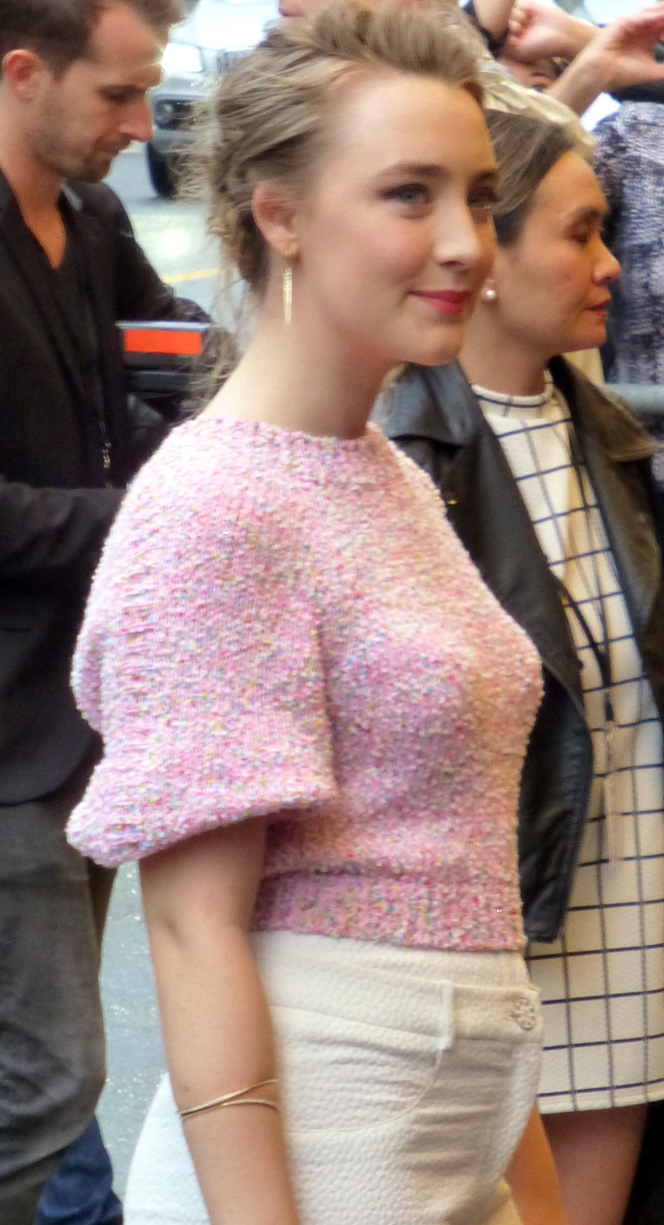 Saoirse Ronan at the premiere of Brooklyn (2015) during the 2015 Toronto International Film Festival (TIFF) at the Winter Garden Theatre on September 13, 2015 in Toronto, Canada.